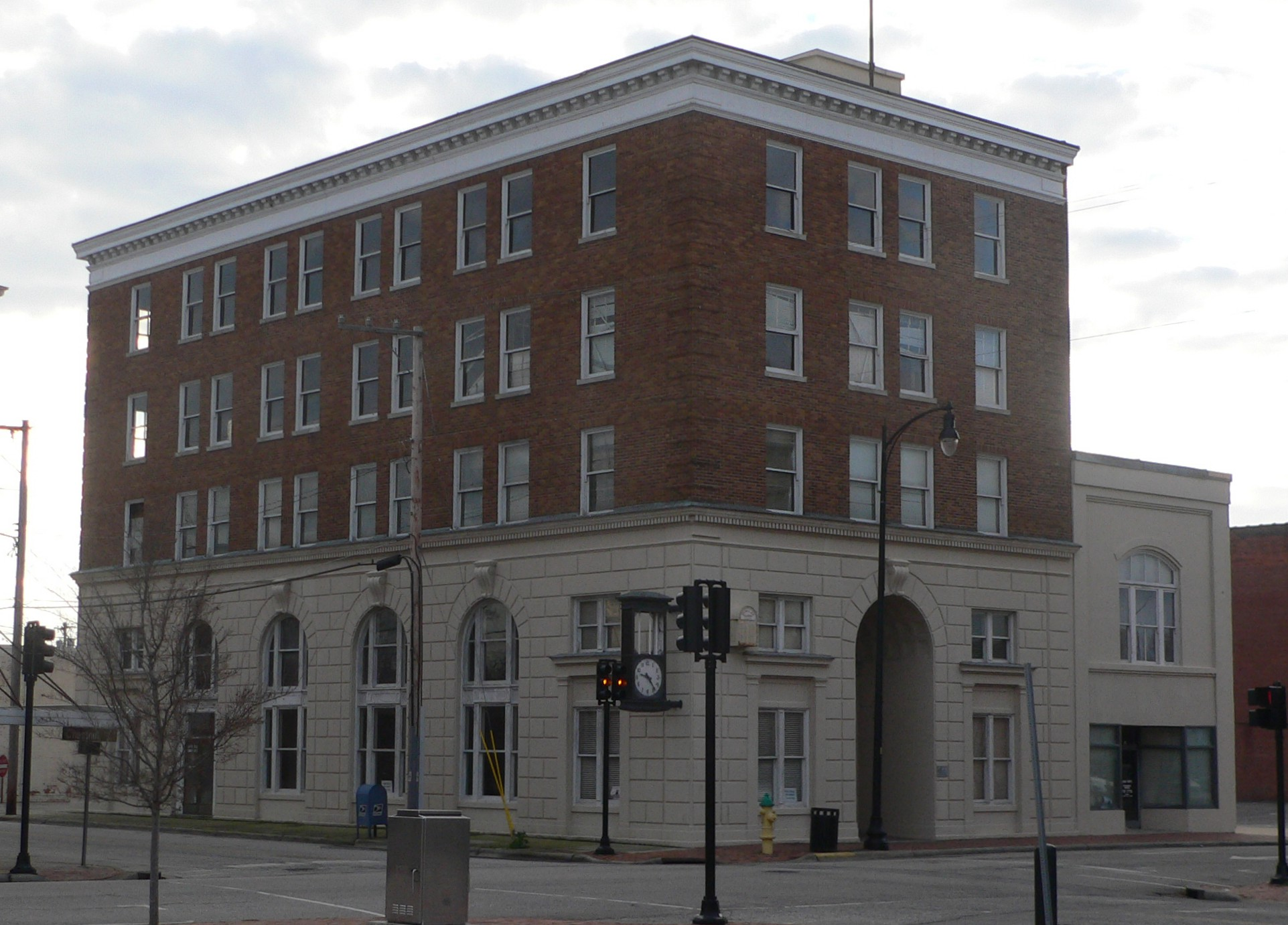 Planters Building, located at 308 N. Chestnut Street (southeast corner of 4th and Chestnut Streets) in Lumberton, North Carolina; seen from the northwest.